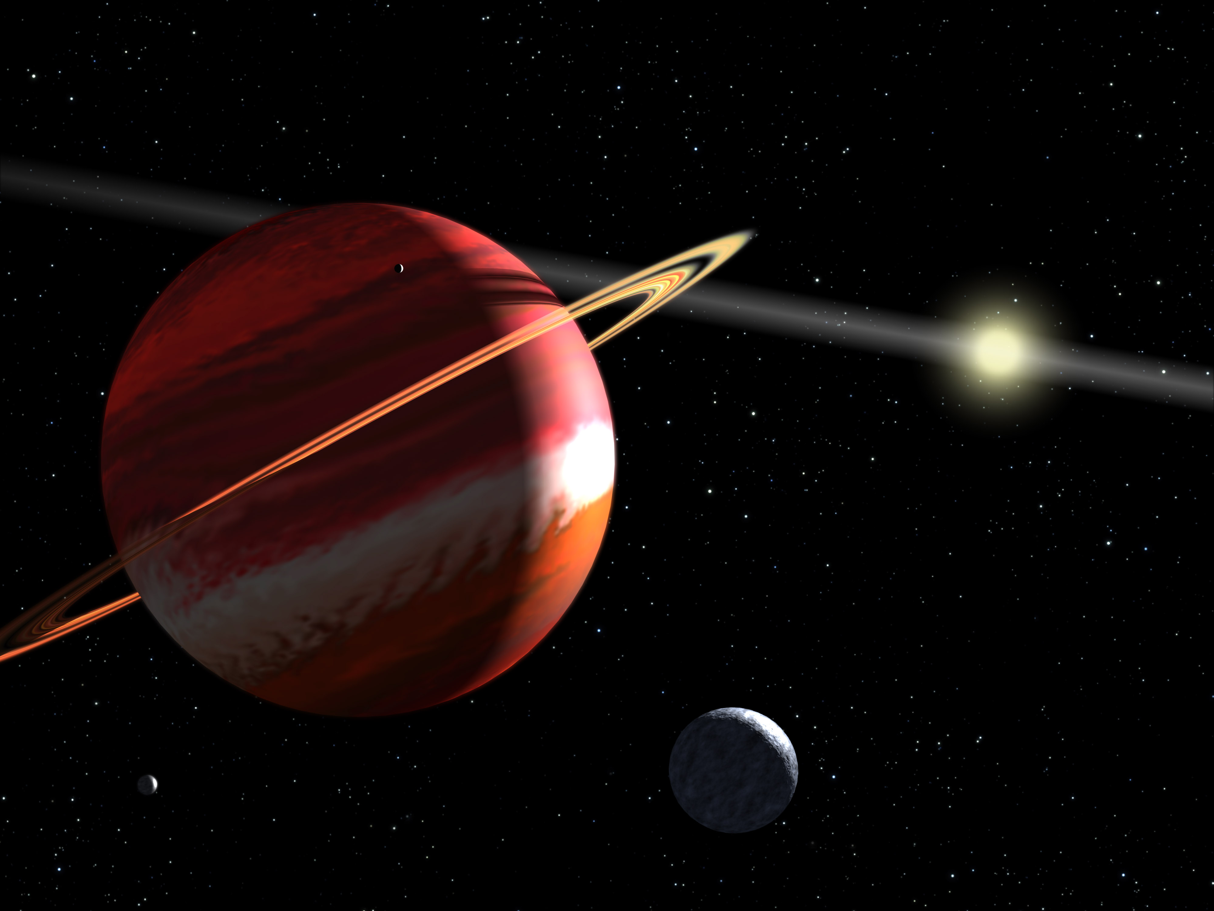 This is an artist's concept of a Jupiter-mass planet orbiting the nearby star Epsilon Eridani. Located 10.5 light-years away, it is the closest known exoplanet to our solar system. The planet is in an elliptical orbit that carries it as close to the star as Earth is from the Sun, and as far from the star as Jupiter is from the Sun. Epsilon Eridandi is a young star, only 800 million years old. It is still surrounded by a disk of dust that extends 20 billion miles from the star. The disk appears as a linear sheet of reflecting dust in this view because it is seen edge-on from the planet's orbit, which is in the same plane as the dust disk. The planet's rings and satellites are purely hypothetical in this view, but plausible. As a gas giant, the planet is uninhabitable for life as we know it. However, any moons might have conditions suitable for life. Astronomers determined the planet's mass and orbital tilt in 2006 by using Hubble to measure the unseen planet's gravitational pull on the star as it slowly moved across the sky. Evidence for the planet first appeared in 2000 when astronomers measured a telltale wobble in the star.